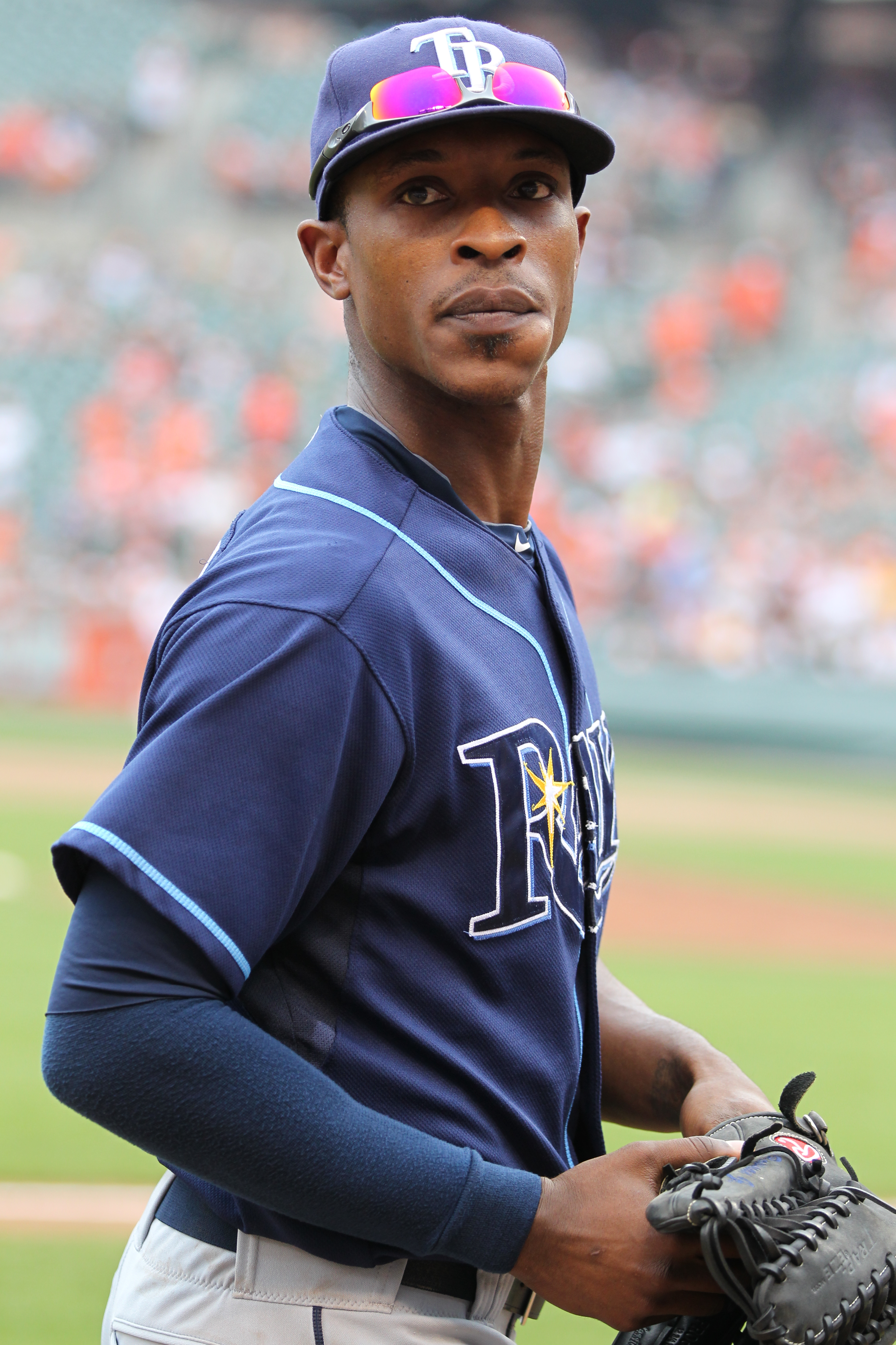 Tampa Bay Rays at Baltimore Orioles June 12, 2011.